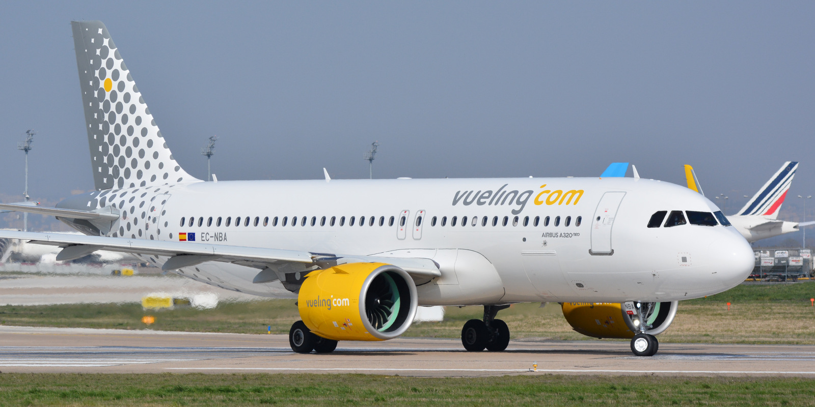 Paris-Orly Airport